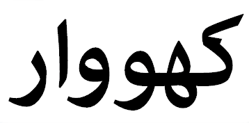 Khowar (کهووار), also known as Chitrali, is an Indo-Aryan language of the Dardic group spoken in northern Pakistan. The program Libre Office was used to generate this text.